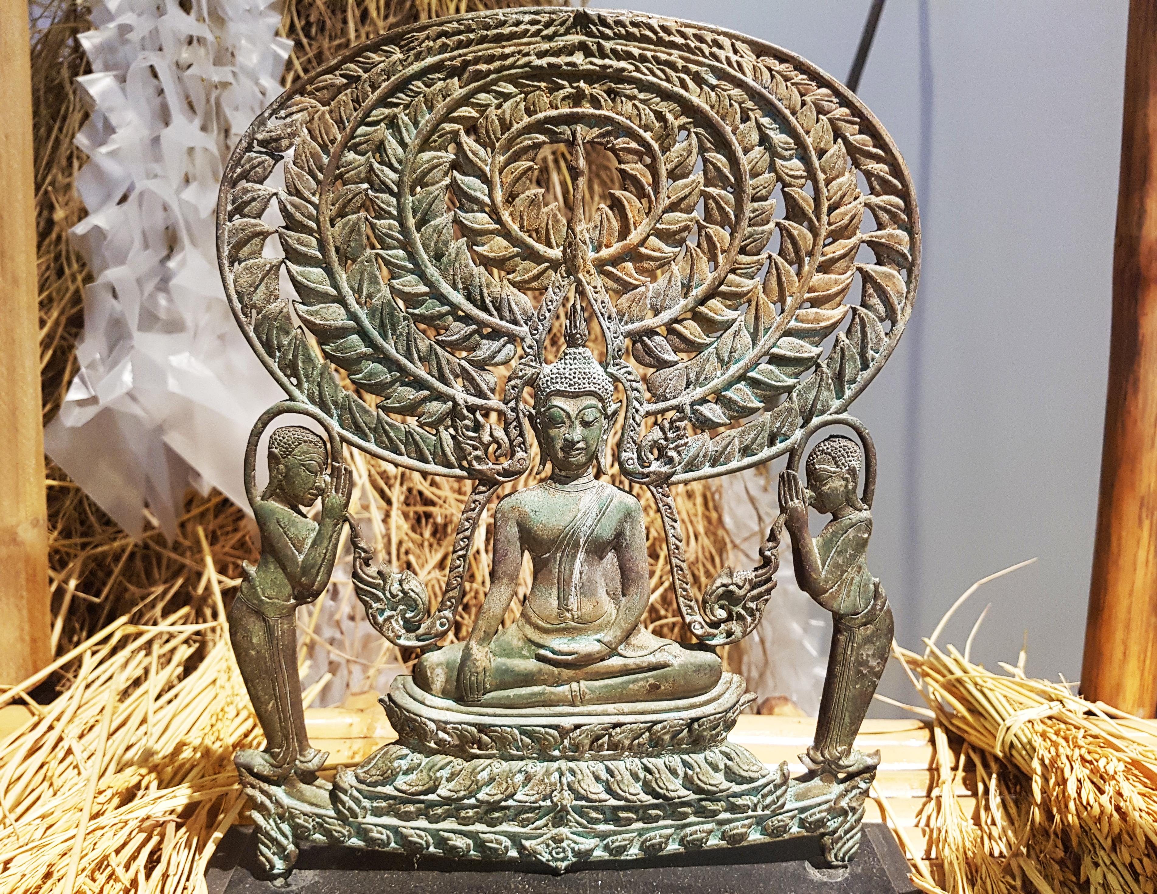 Where: Bangkok Art and Culture Centre, Bangkok, Thailand. What: An image of Gautama Buddha together with his chief disciples, Moggallana and Sariputta, with rice ears and straws, as worshipped by rice farmers. It reflects a mixture or hybrid of the Buddhist belief and the folk belief of Thailand.